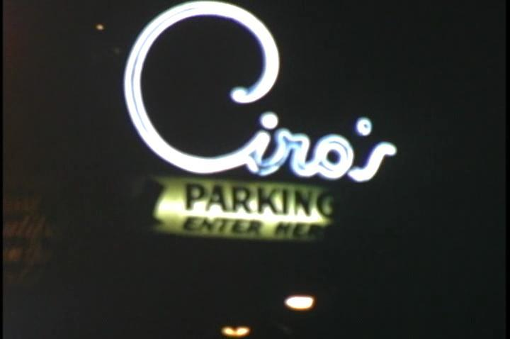 The neon sign of Ciro's nightclub on the Sunset Strip, in 1955. Located on the Strip from 1940 to 1957, in West Hollywood, Southern California.